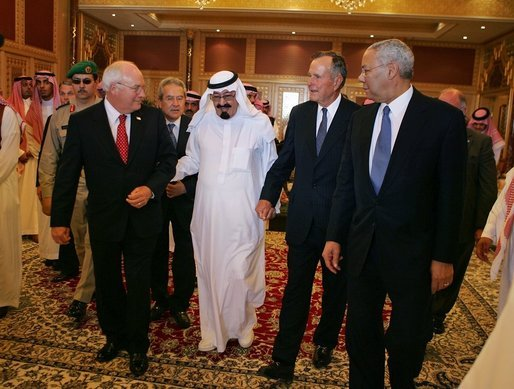 Vice President Dick Cheney walks with newly crowned King Abdullah, former President George H.W. Bush, and former Secretary of State Colin Powell during a retreat at King Abdullah's Farm in Riyadh, Saudi Arabia, August, 2005.